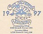 SCICEX 97 Naval expedition logo for the USS Archerfish